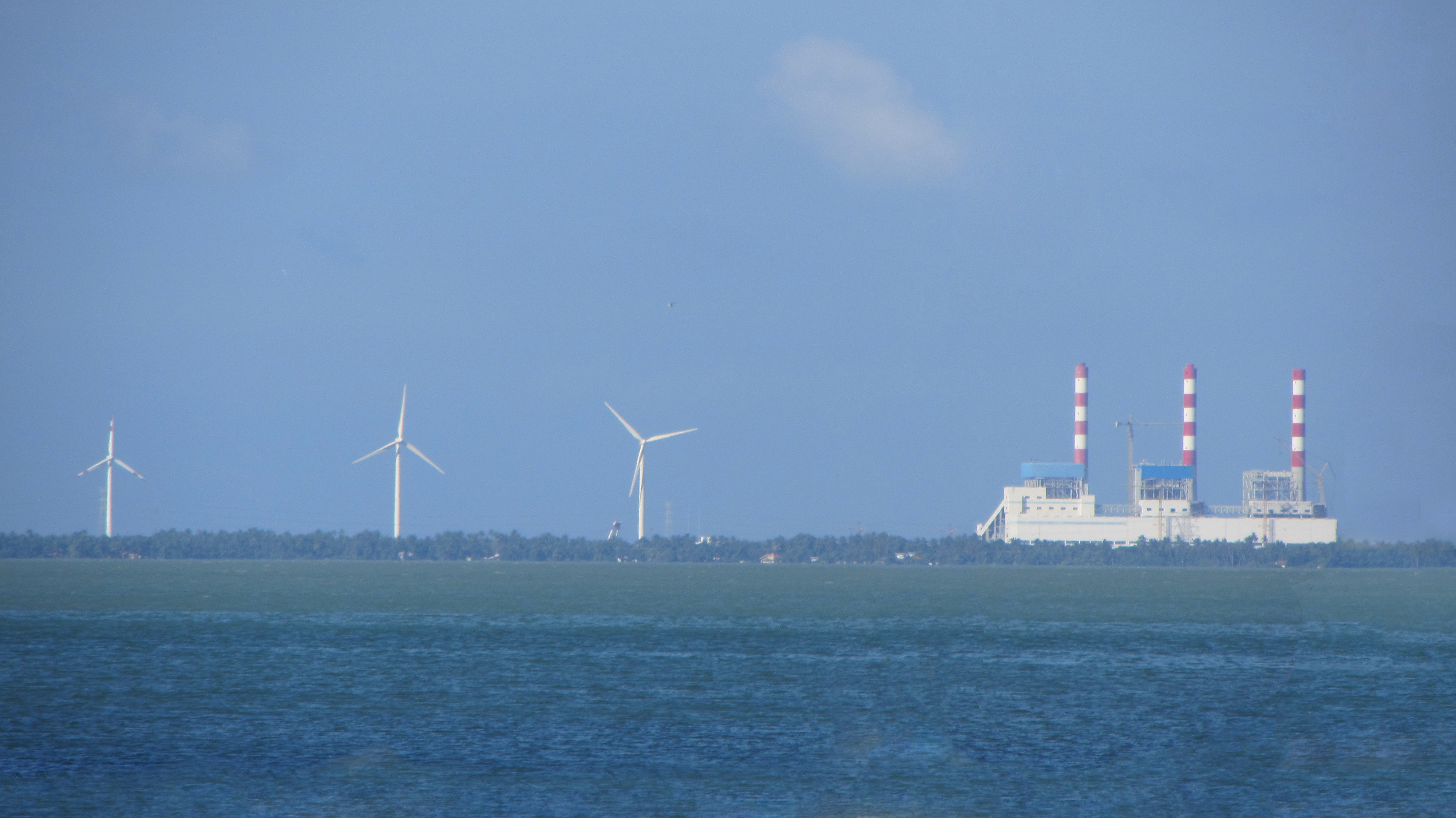 One wind turbine of the Mampuri Wind Farm (left), and two turbines belonging to the Madurankuliya Wind Farm (centre), near the Lakvijaya Power Station (right), in Puttalam, Sri Lanka.